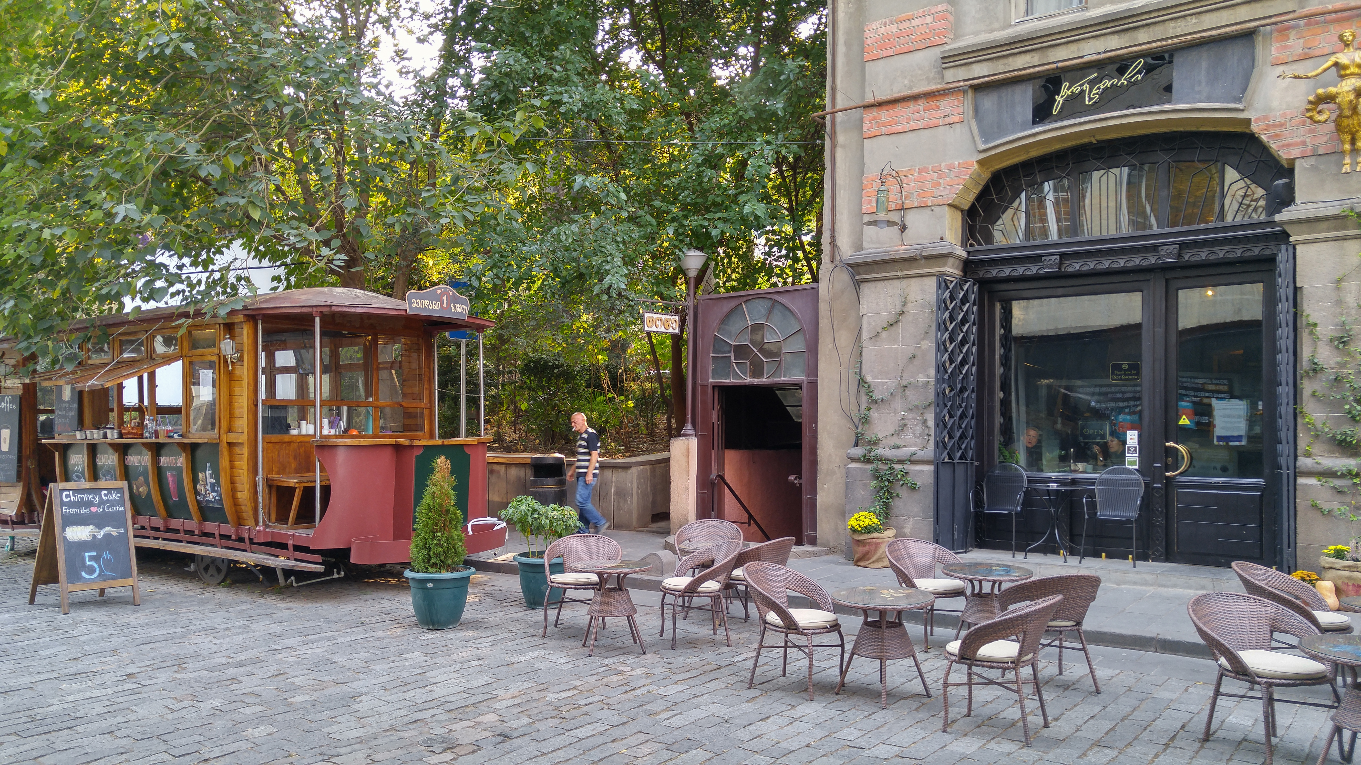 Small museum on the history of Tbilisi, exhibiting a collection of artifacts & old photographs.